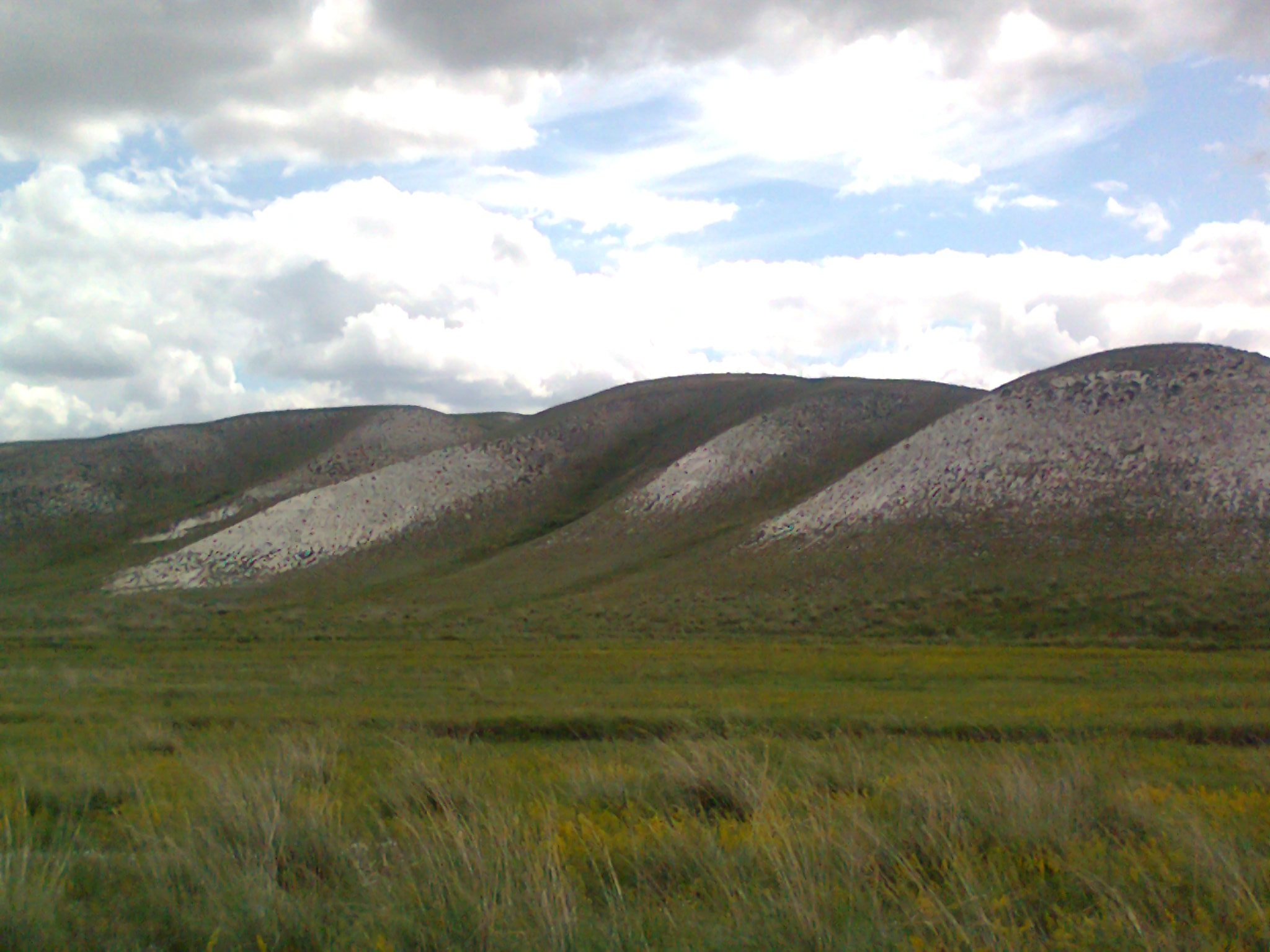 Unique Botanical-Zoological monument "Myrgorodska", the natural Monument mountain "Bol'shaya Ichka"